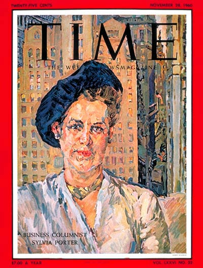 Time magazine, Volume 76 Issue 22, for November 28, 1960, as printed on face of publication. Front cover is an illustration of Sylvia Porter.